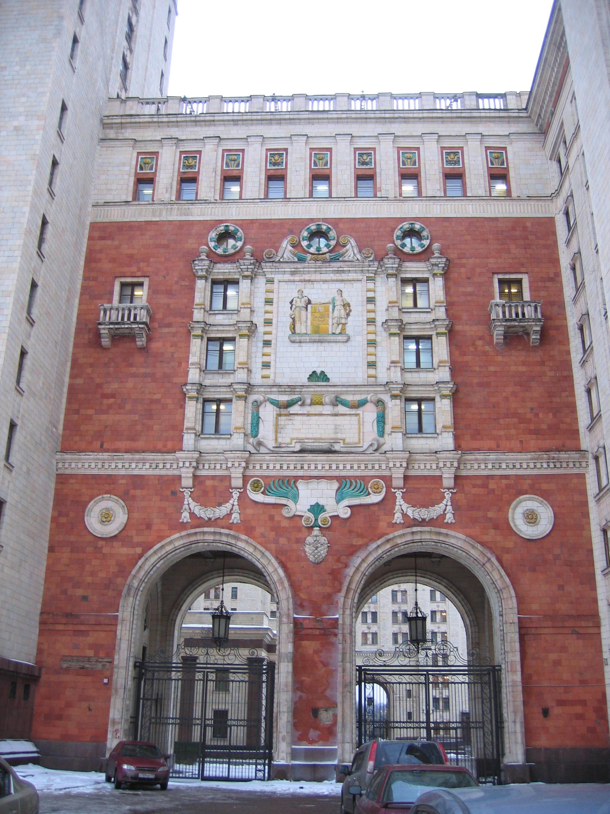 The main building of Moscow State University